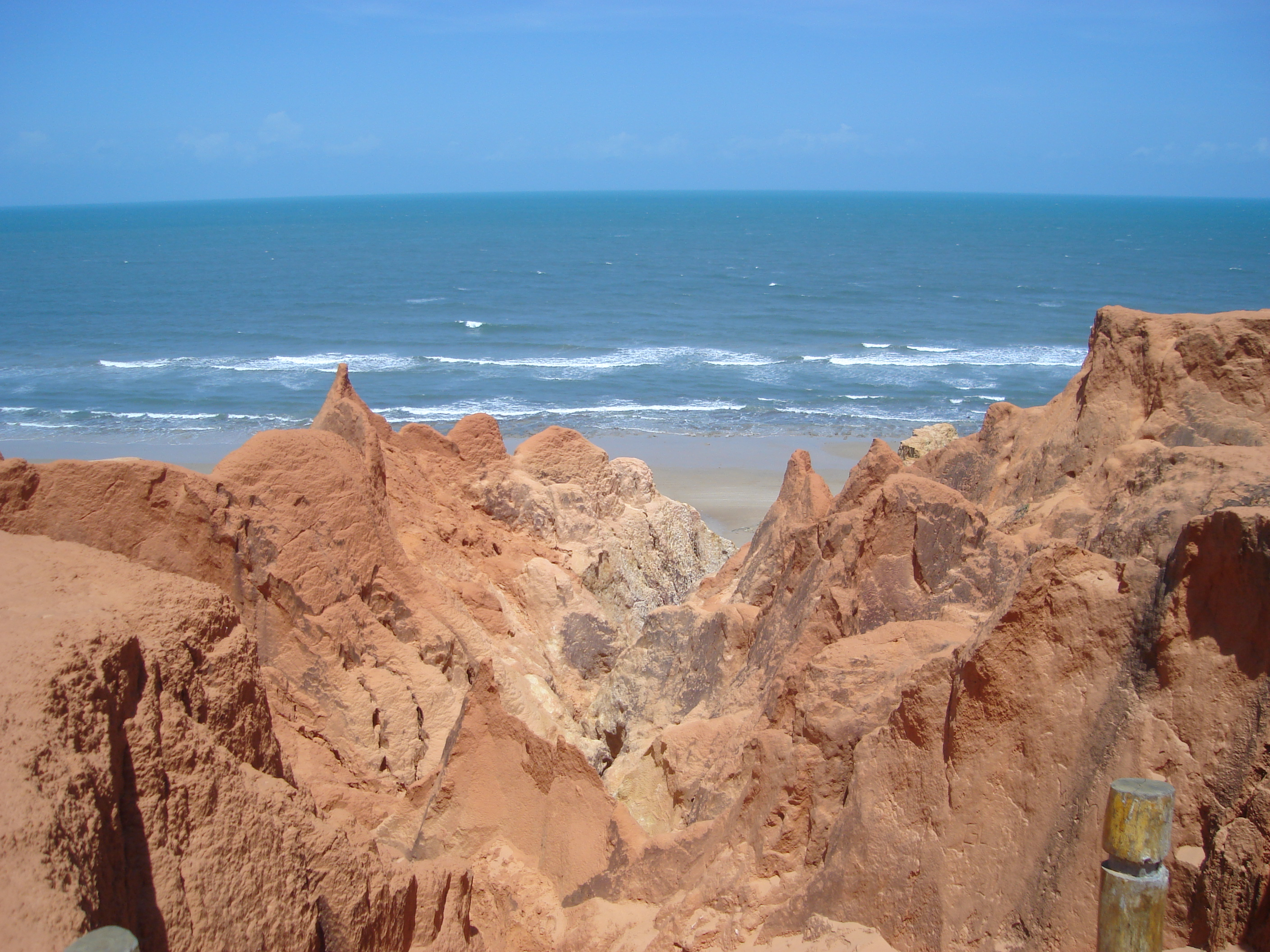 Monumento Natural Falésias de Beberibe, Ceará, Brazil - Beberibe Cliff, Ceará, Brazil